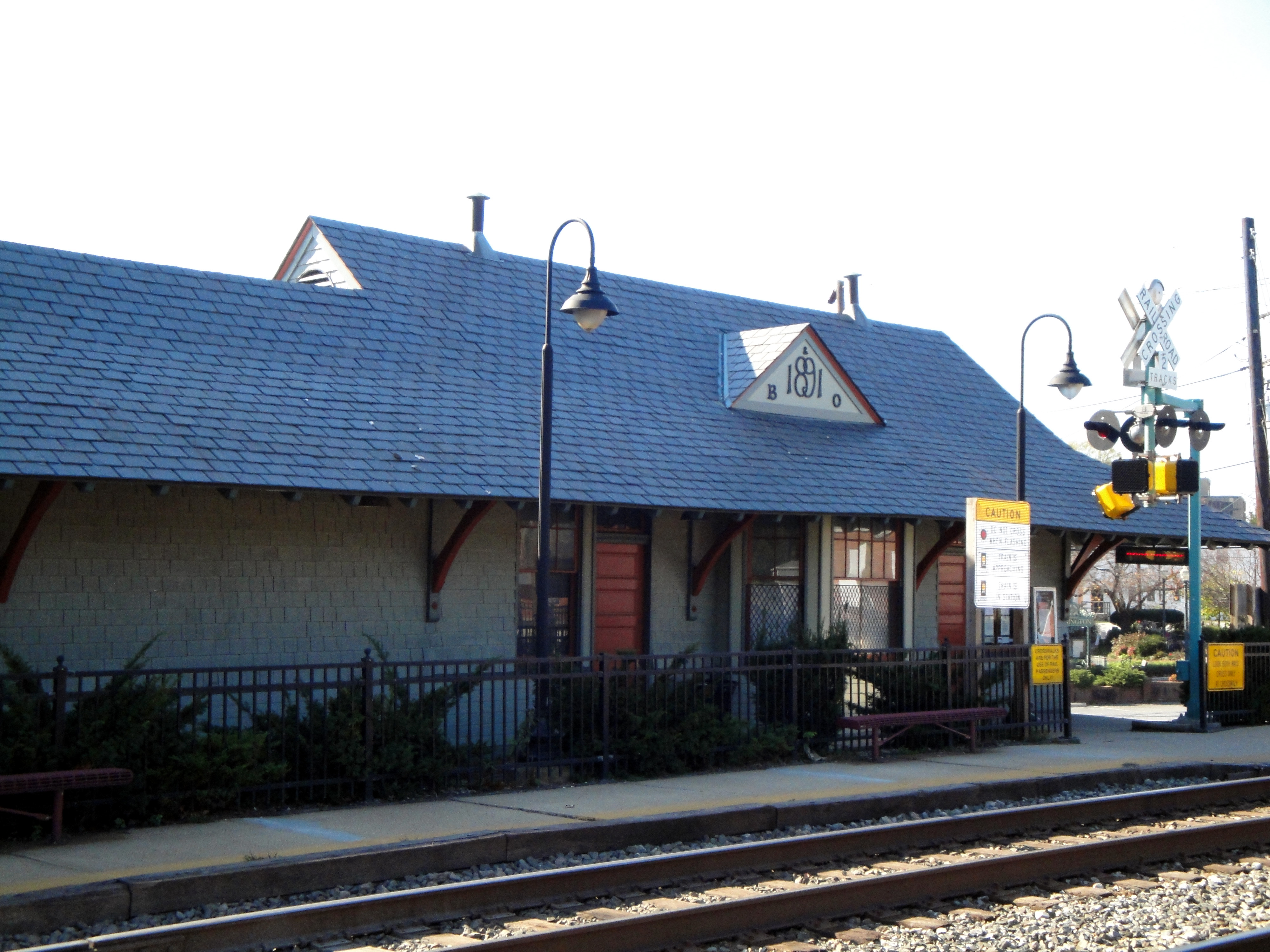 View of Kensington, Maryland railroad station, built in 1891 by the Baltimore and Ohio Railroad. Historic district contributing property.